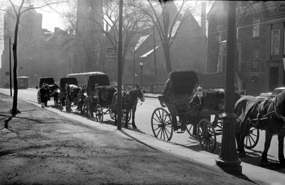 We see carriages drawn by horses waiting in line at Dominion Square (now Dorchester Square).